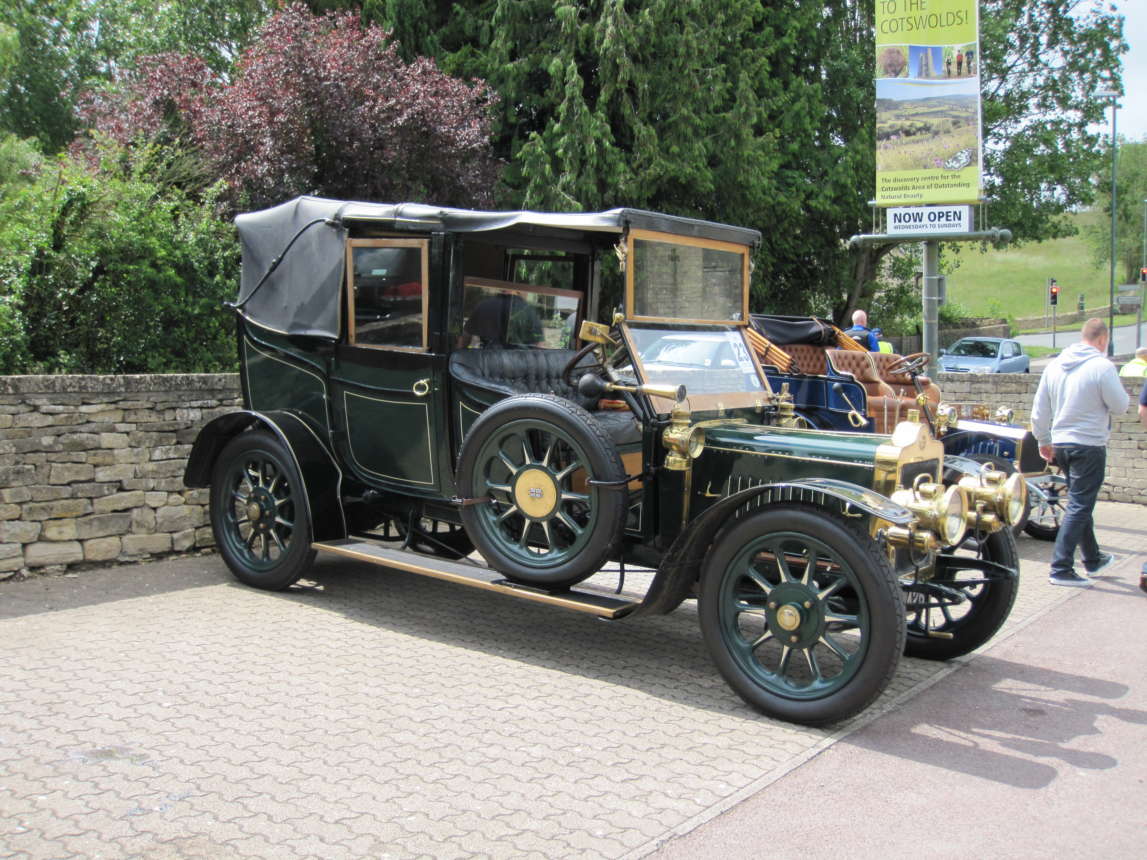 1910 Standard 30HP cabriolet Veteran Car Club of Great Britain Cotswold Caper